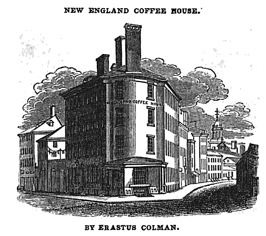 New England Coffee House, Clinton Street, Boston MA.